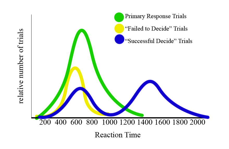 The general distribution of reaction times for the different trials. Notice the timing of the two peaks for trials labelled "successful decide". Although "failed to stop" trials are not shown here, their distribution was similar to "failed to decide".